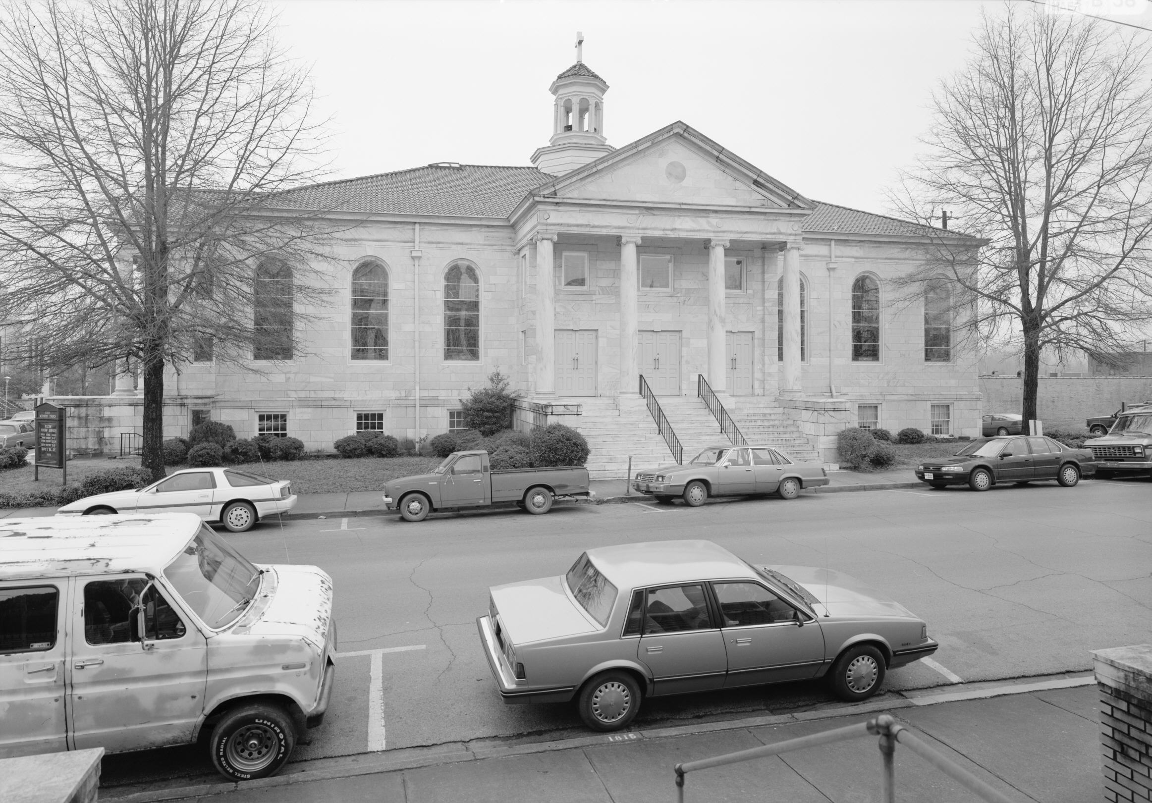 First Methodist Church, 1900 Third Avenue North, Jasper, Walker County, AL. EXTERIOR VIEW, SIDE (EAST) ELEVATION